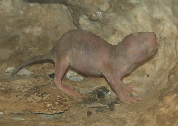 Naked Mole rat baby